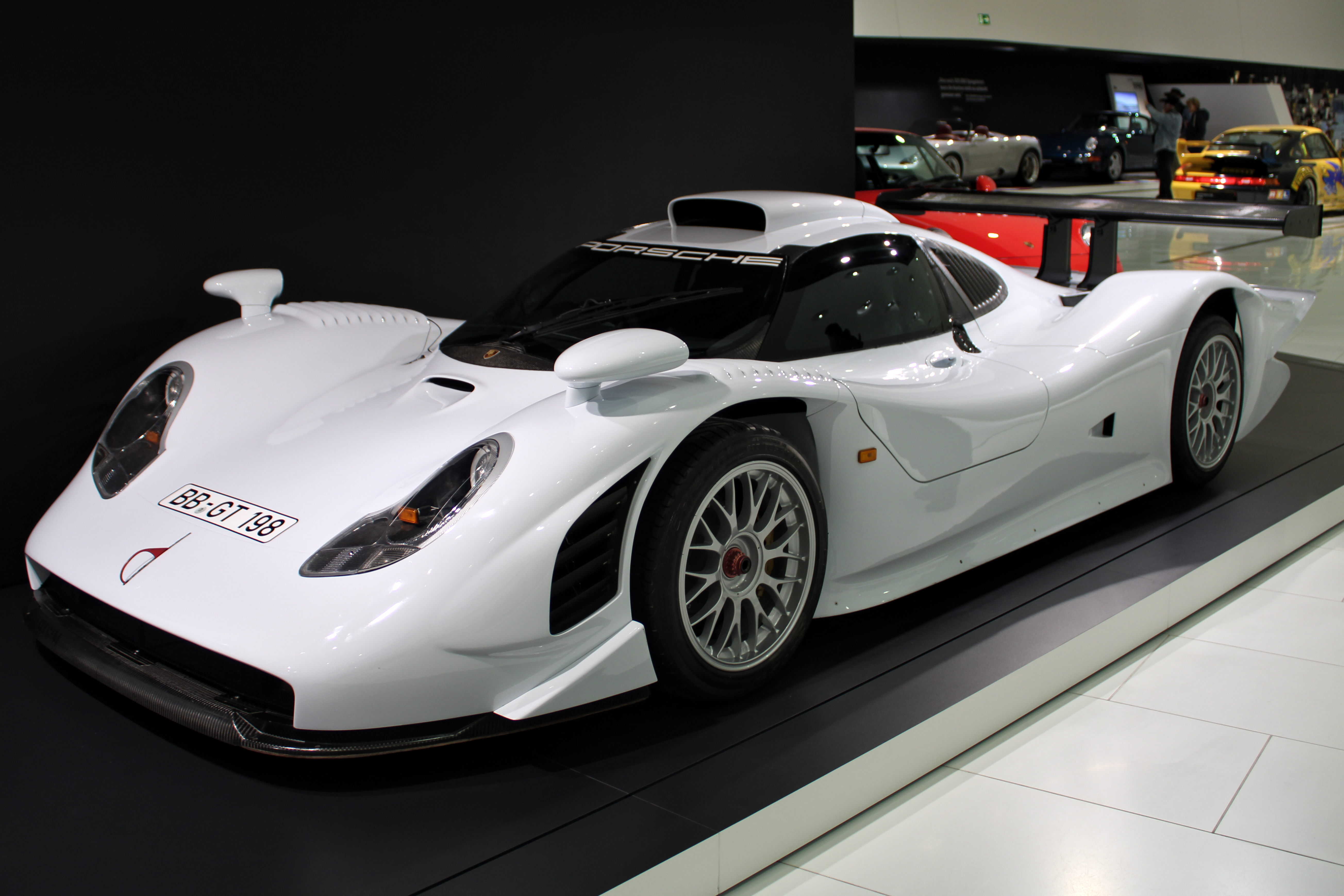 Porsche 911 GT1 '98 at Porsche Museum 2018